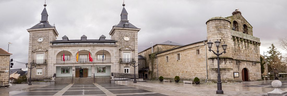 Plaza de la iglesia y del ayuntamiento de Alpedrete.